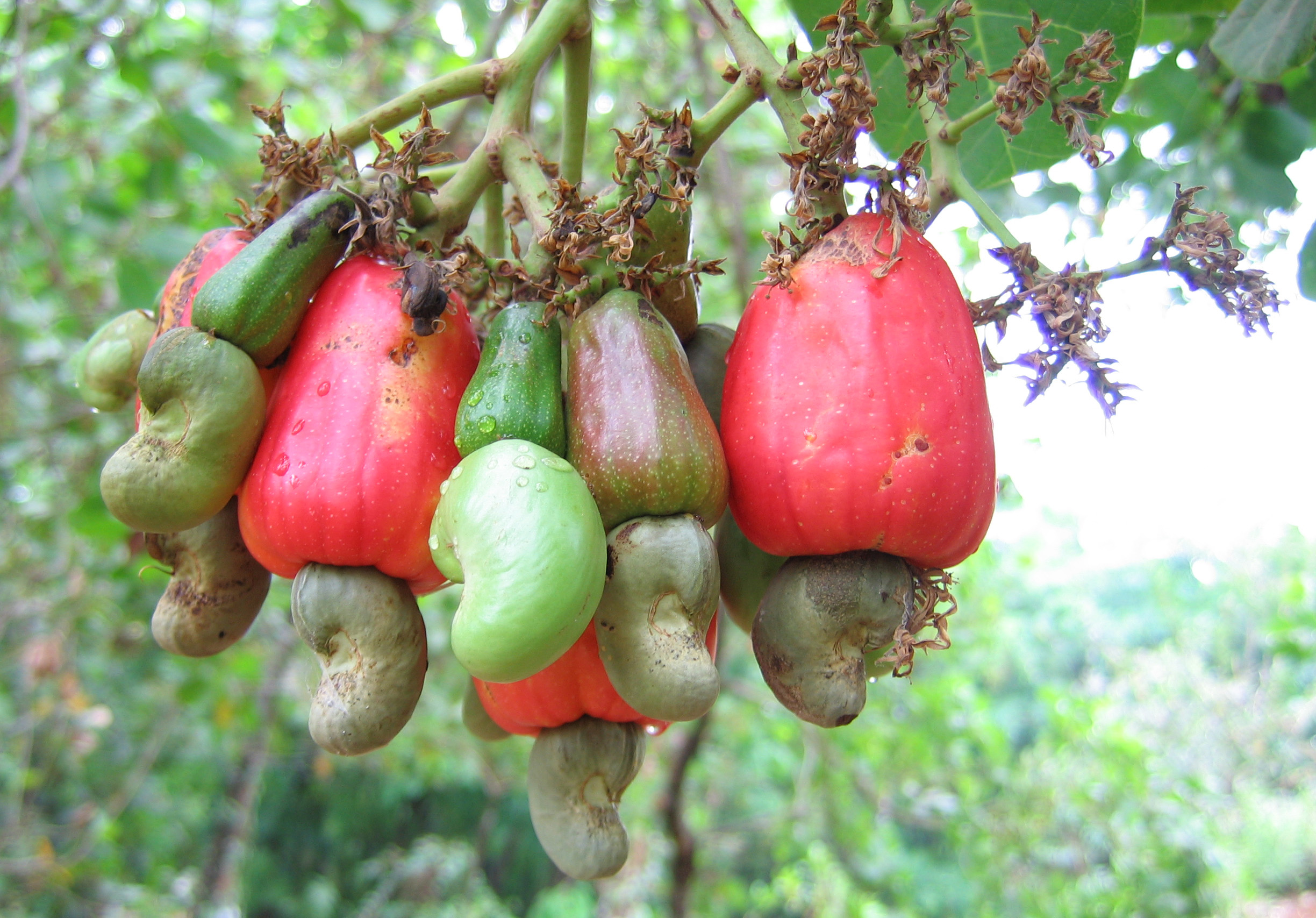 Cashewnuts hanging on a Cashew Tree, a photo from Kannur